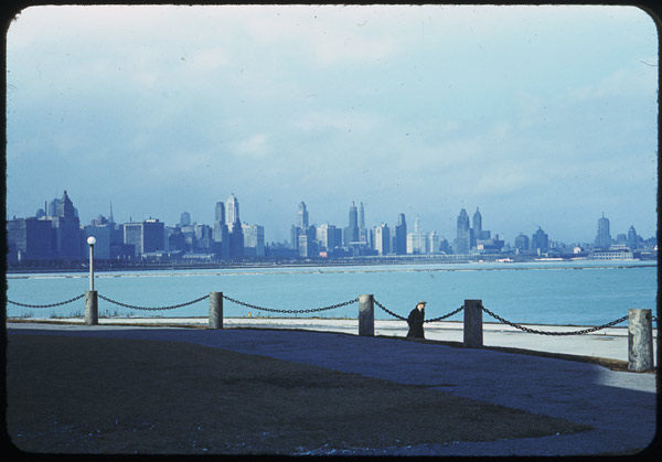 Chicago skyline from Northerly Island Description: Harbor and skyline from Planetarium. Creator: Cushman, Charles Weever, 1896-1972 Taken sometime in 1941